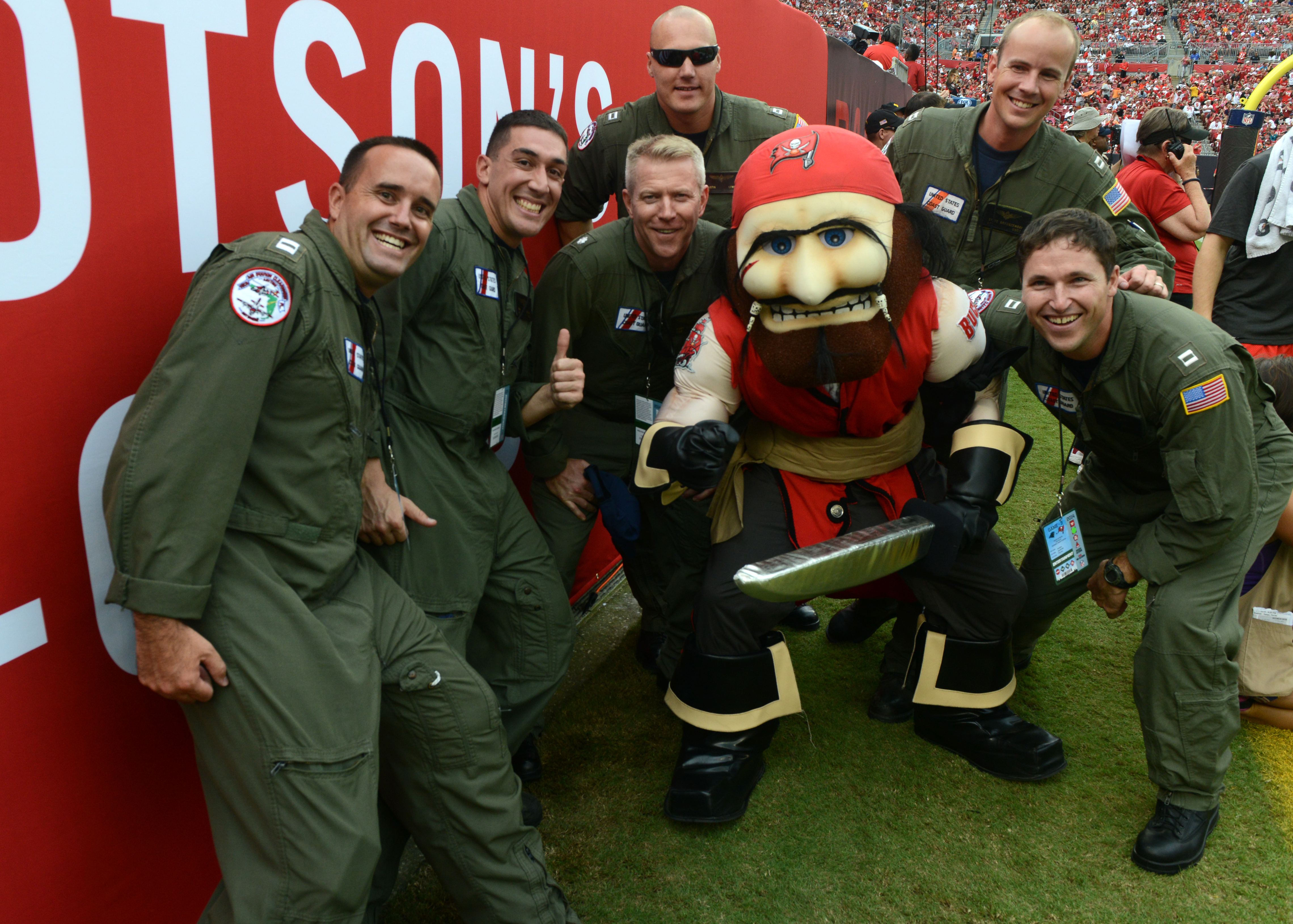 Aircrews from Coast Guard Air Station Clearwater, Fla., pose for a photo with Captain Fear at a Tampa Bay Buccaneers football game in Tampa, Fla., Sunday, Sept. 7, 2014. The aircrews attended the game after conducting a flyover consisting of an HC-130 Hercules aircraft and two MH-60 Jayhawk helicopters. (U.S. Coast Guard photo by Petty Officer 3rd Class Ashley J. Johnson)